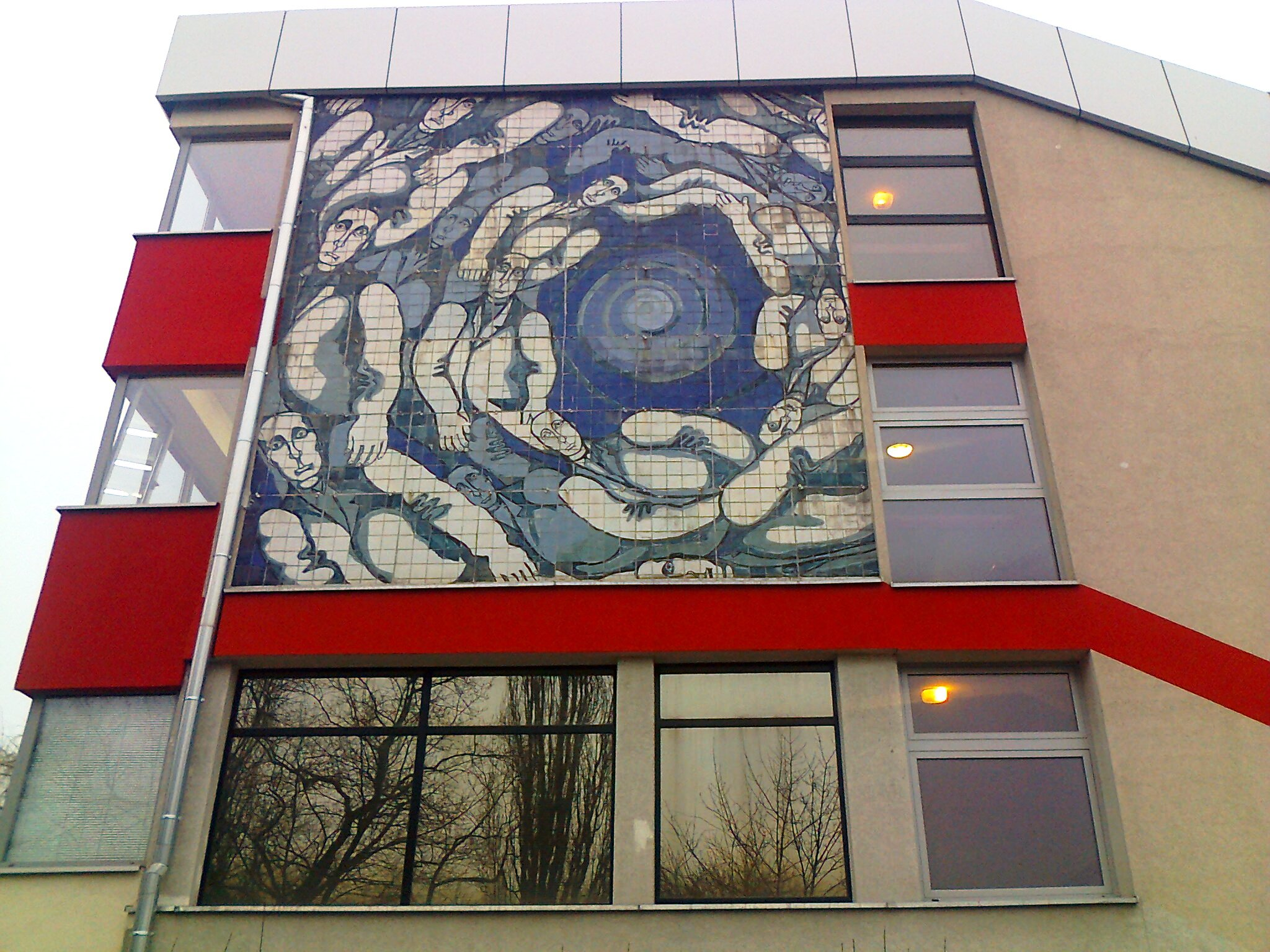 University of Wroclaw, the building of the Faculty of Mathematics and Computer Science, facade view from the Odra river (finishing detail of the facade) ; mosaic by Anna Szpakowska-Kujawska